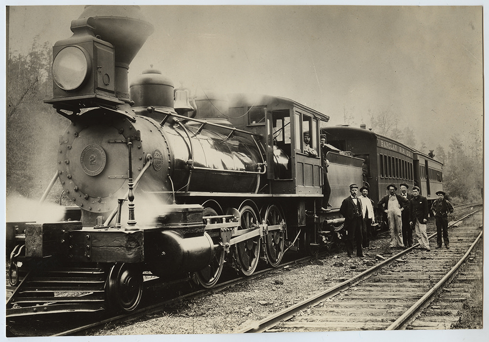 Title: [Barclay Railroad, Locomotive 2 with Tender and Cars] Creator: Unknown Date: 1895 Part of: Everett L. DeGolyer Jr. collection of United States railroad photographs Place: Towanda, Pennsylvania Physical Description: 1 photographic print: 15 x 22 cm File: ag1982_0232_brr_00002_r_sm_opt.jpg Rights: Please cite Southern Methodist University, Central University Libraries, DeGolyer Library when using this image file. A high-quality version of this file may be obtained for a fee by contacting . For more information, see: Railroads: Photographs, Manuscripts, and Imprints